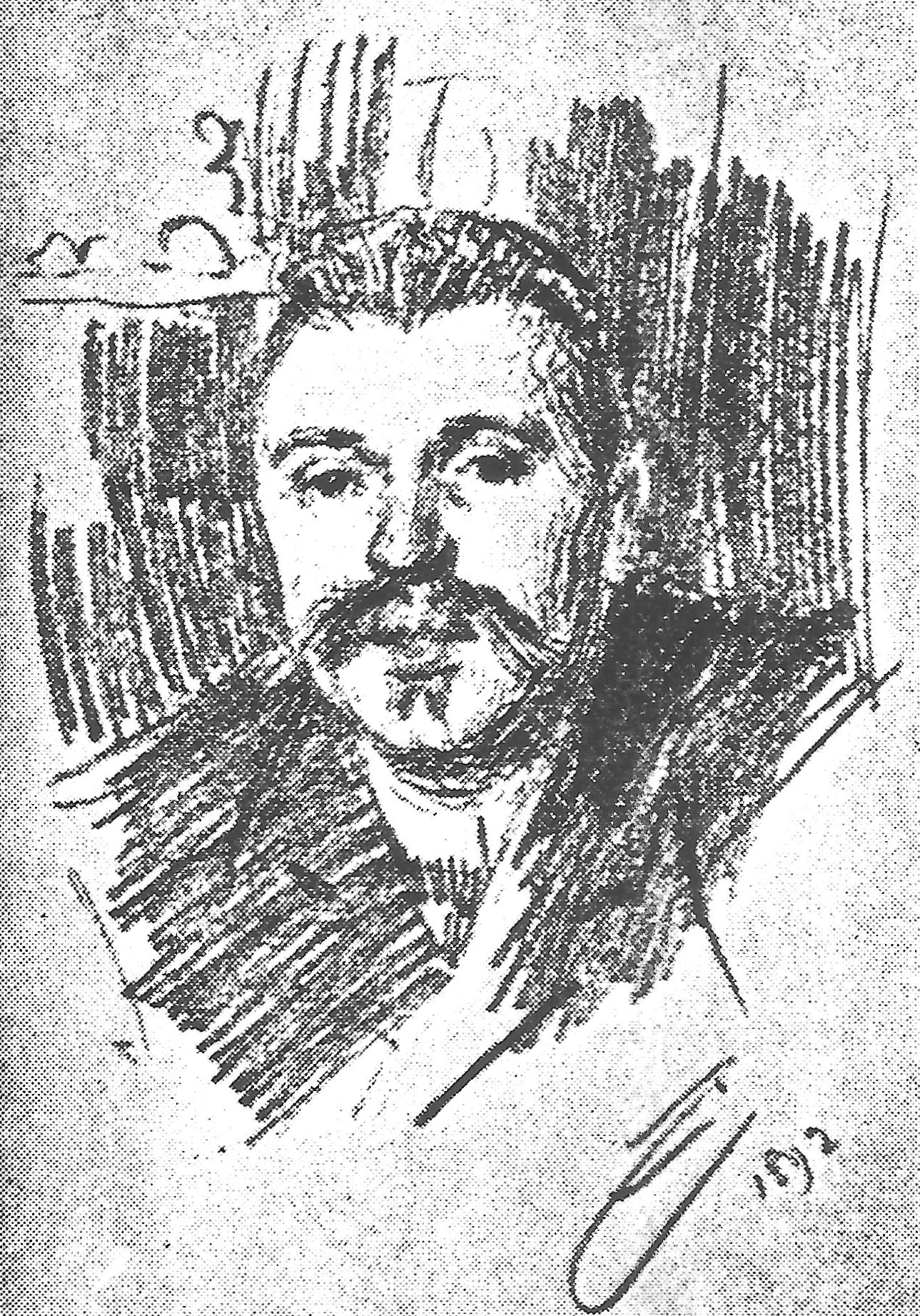 Portrait drawing of Per Hasselberg (1850-1894) by Anders Zorn (1860-1920) signed 1892